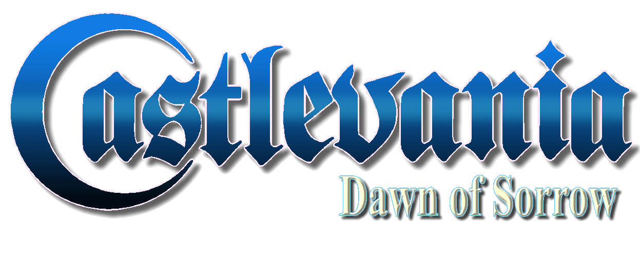 The logo of the Konami's Castlevania: Dawn of Sorrow video game.